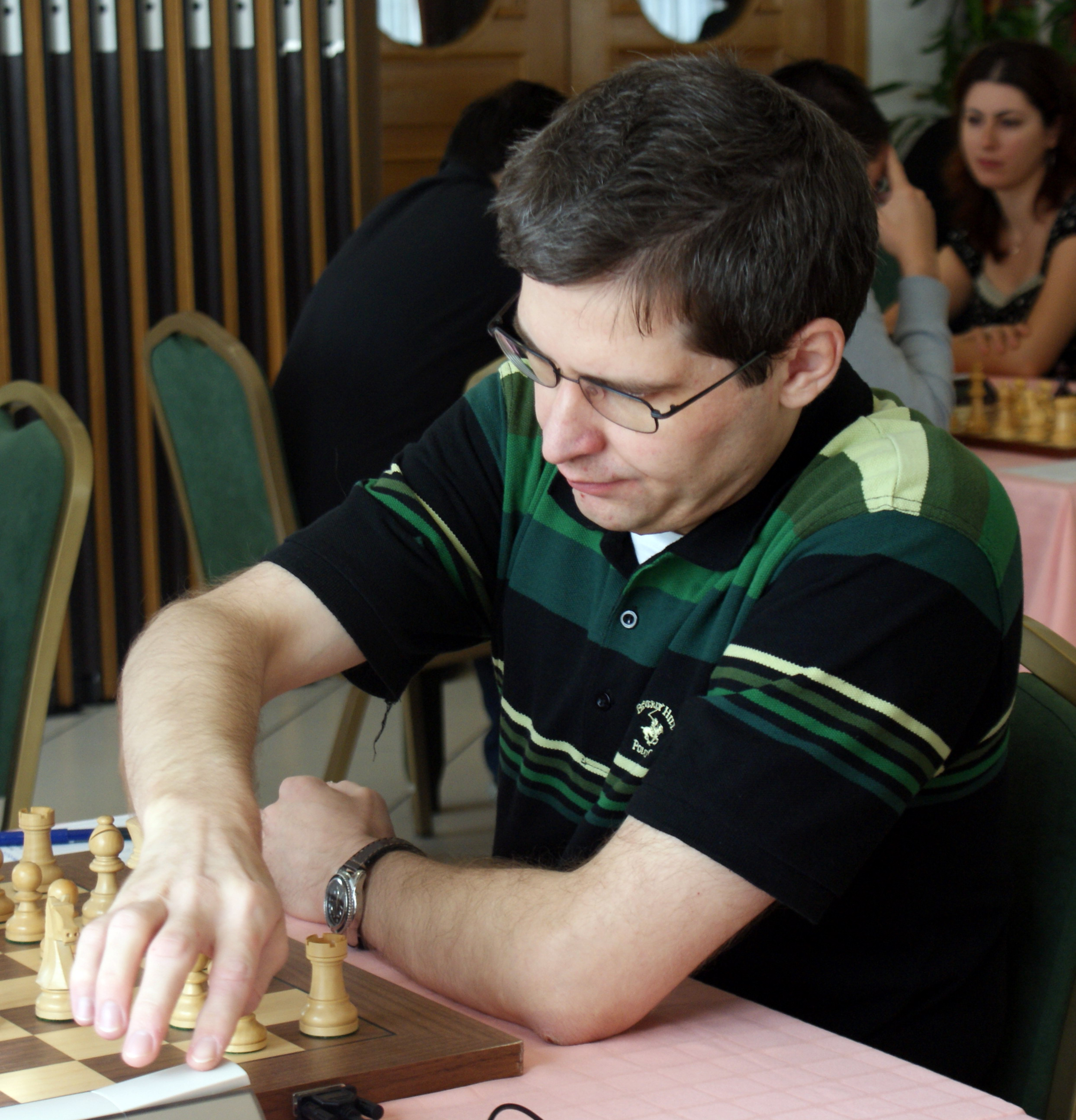 IM Dan Zoler (Israel) XXVIII Obert Internacional d'Andorra Ronda 9 Hotel St. Gothard - Erts